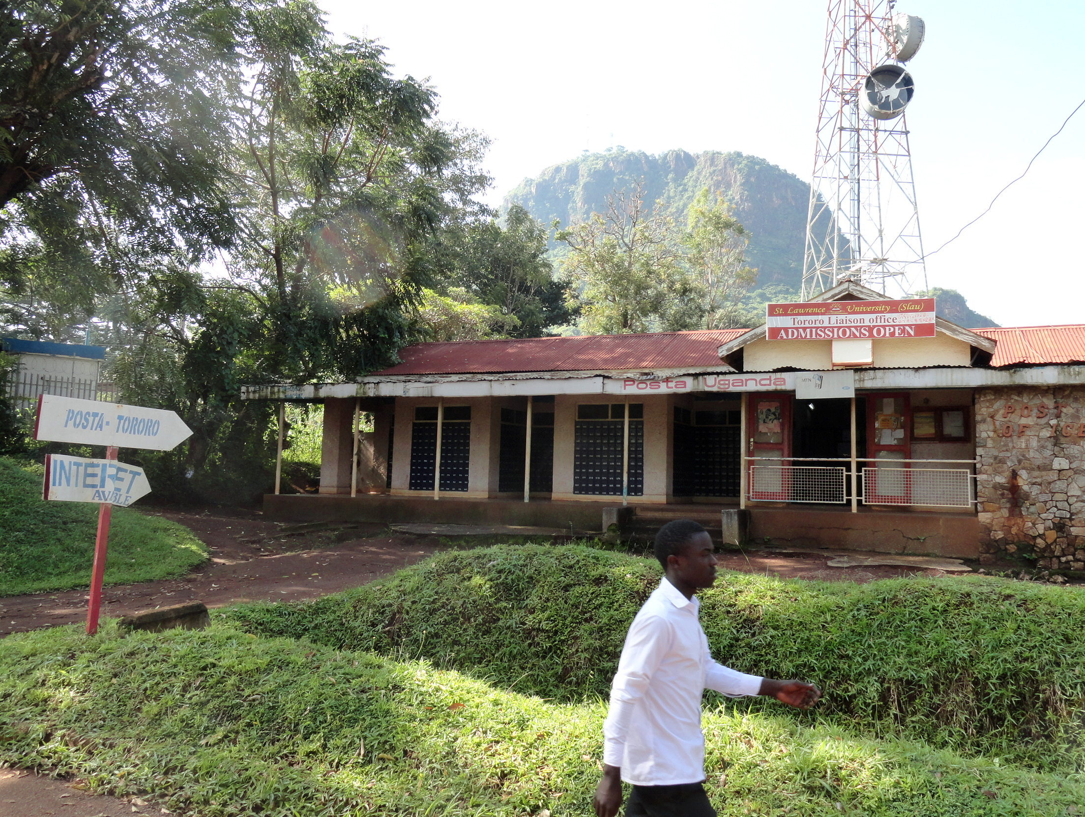 Tororo Post Office with Tororo Rock in background November 2019